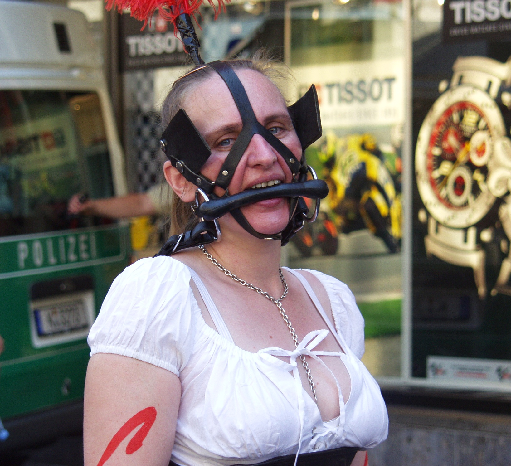 Members of the Christopher Street Day demonstration - ColognePride 2006